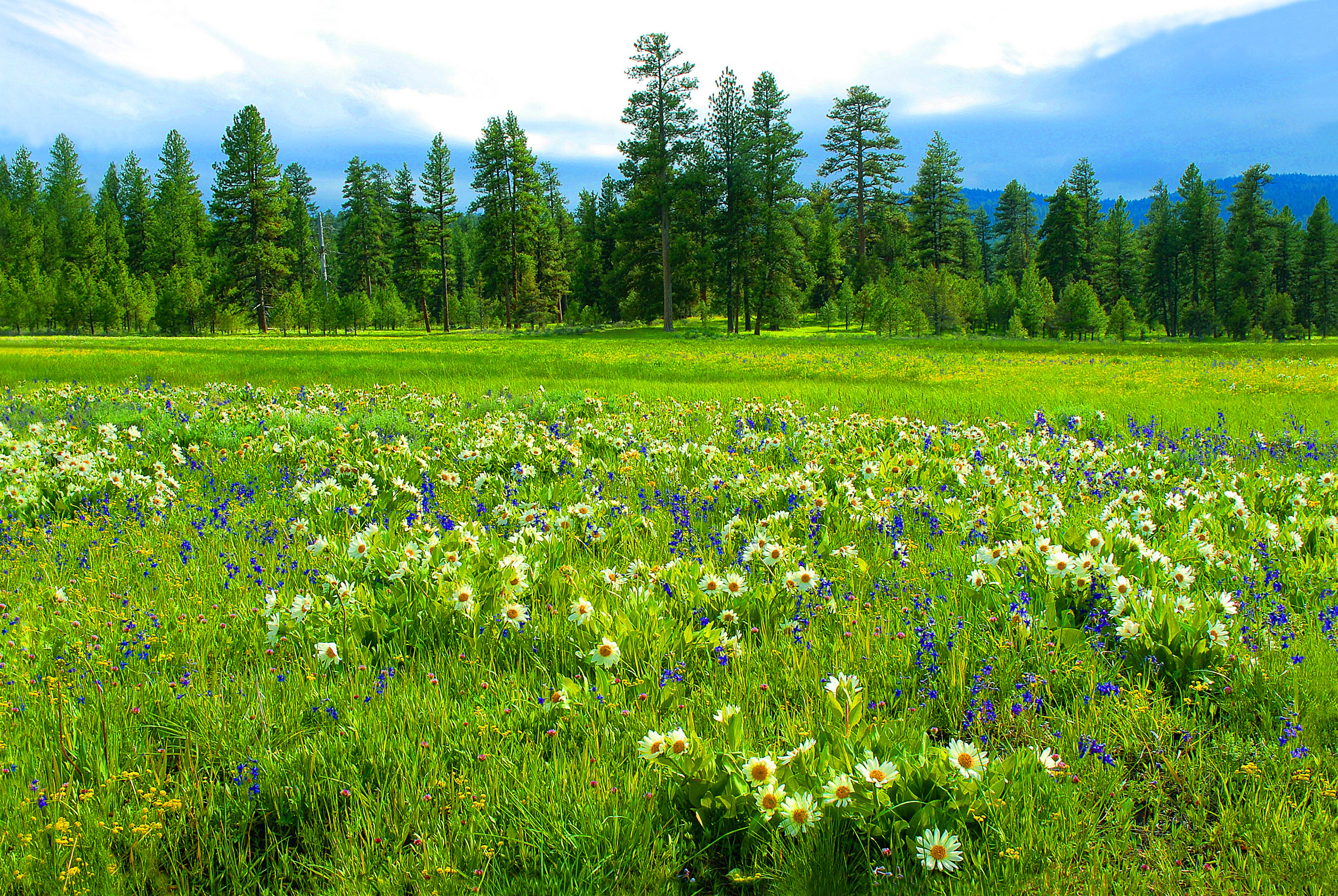 Ochoco National Forest_ Big Summit Prairie